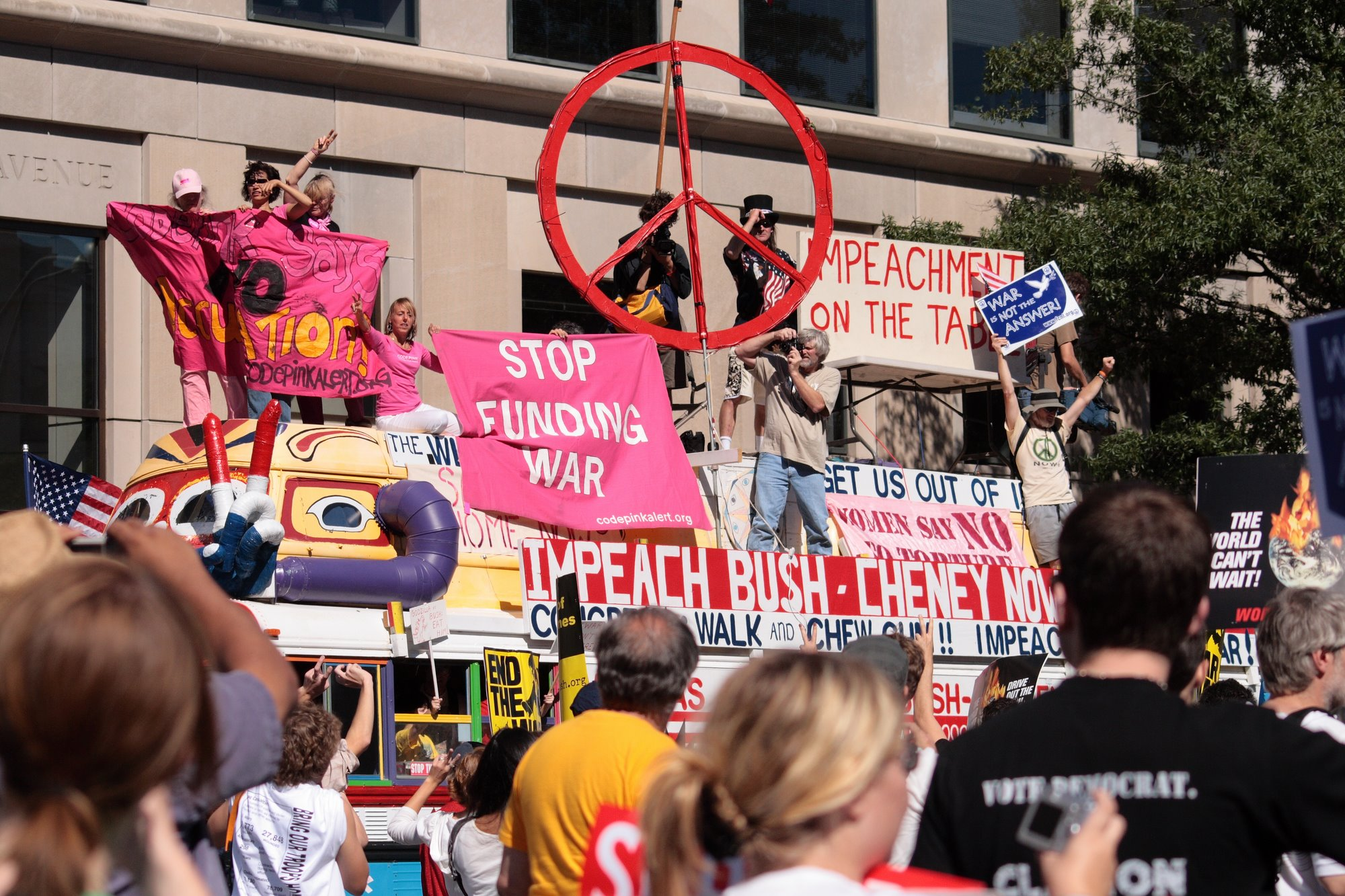 A decorated bus of peace activists among the marchers at the September 15, 2007 anti-war protest in Washington, D.C.